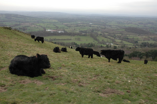 Cattle on the Malvern Hills This Dexter cattle are an unusual sight high on the Malvern Hills between Summer Hill and the Worcestershire Beacon. The Herefordshire countryside can be seen beyond stretching into the distance.